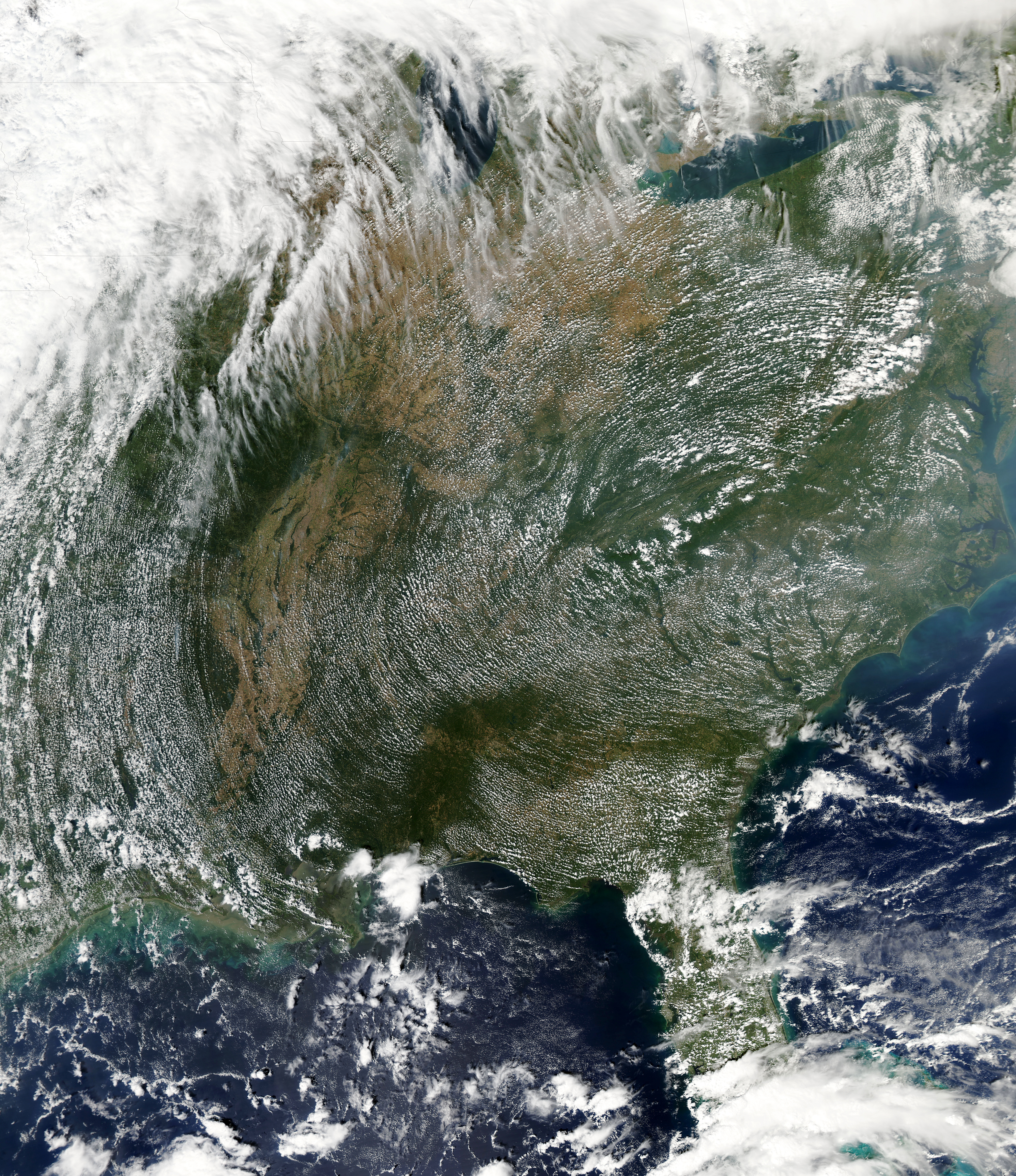 High-pressure weather systems often bring fair weather and relatively clear skies. On September 23, 2010, they also made for atmospheric art. The Moderate Resolution Imaging Spectroradiometer (MODIS) on NASA’s Aqua satellite captured this view of a high pressure system dominating the eastern half of the United States at 3:05 p.m. Eastern Daylight Time (19:05 UTC) on September 23, 2010. The circular pattern to the clouds—stretching from Ohio to Florida and from Arkansas to the Atlantic Coast—was caused by the flow of air around a sprawling high-pressure ridge centered in western Virginia, North Carolina, and eastern Tennessee. In meteorology, high pressure ridges form where air is sinking from high altitudes toward Earth's surface. The descending air flows out from the center in clockwise spirals in the northern hemisphere and counter-clockwise in the southern hemisphere. The relatively low-level cumulus clouds (below 15,000 feet) shown in this image are likely the product of moisture near ground level being cooked by the Sun and convected into the lower atmosphere. Because the winds at that level are pretty strong, the clouds aligned parallel to the direction of wind flow, in “streets” curving along with the flow of the high-pressure system. “To have convective clouds in such a strong flow is a bit unusual in the summer or even early fall,” said NASA atmospheric researcher Tom Arnold, “since winds at that level tend to be weaker in the summer months. It's a sight more common to large cold air outbreaks in the winter over the warm Gulf Stream waters.” The heavier cloud cover to the north and west of this circular pattern was likely a response to a low-pressure system and to jet stream dynamics. The flow around the western side of the high and eastern edge of the low drew abundant moisture from the Gulf of Mexico.